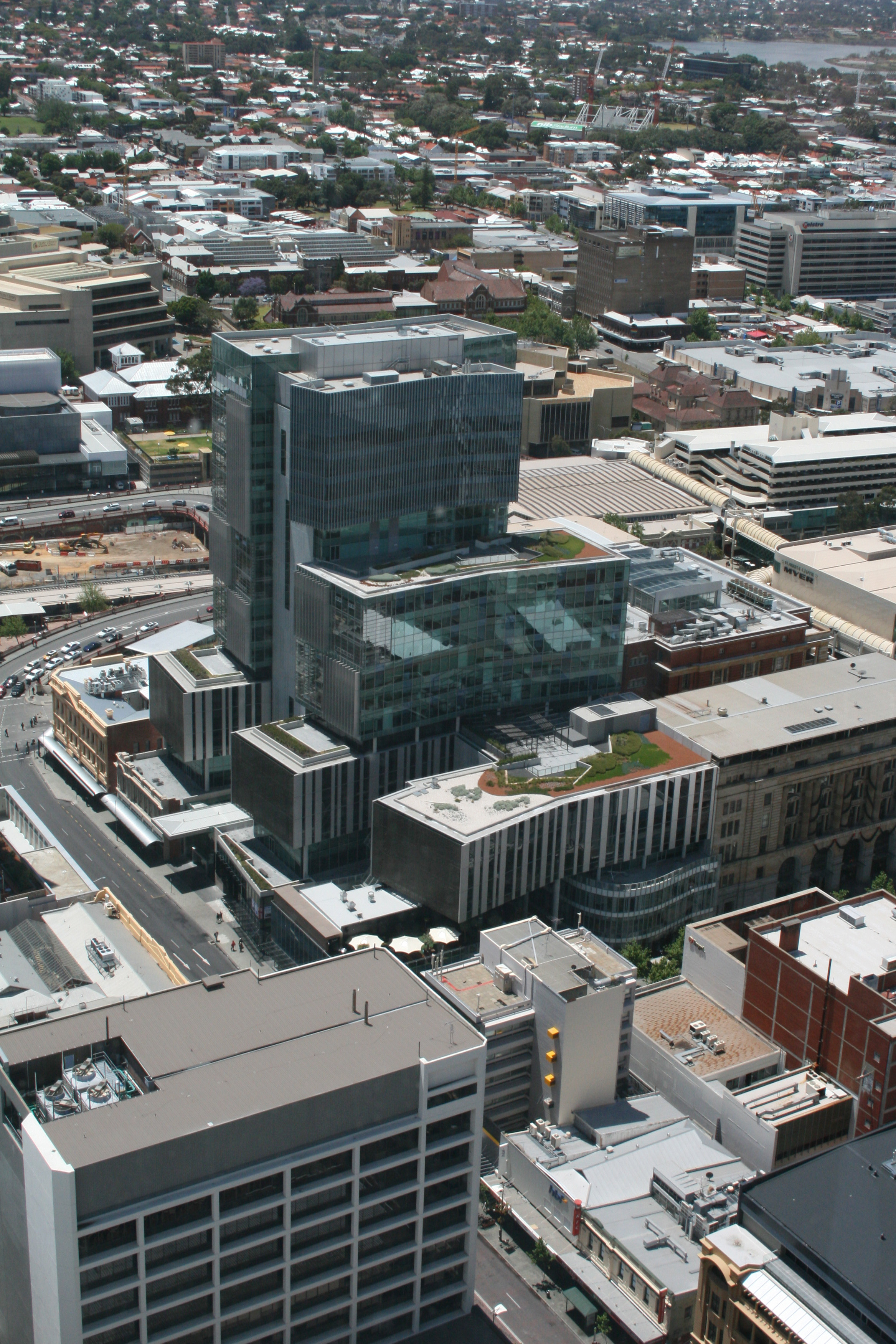 one40william as seen from Central Park (skyscraper)